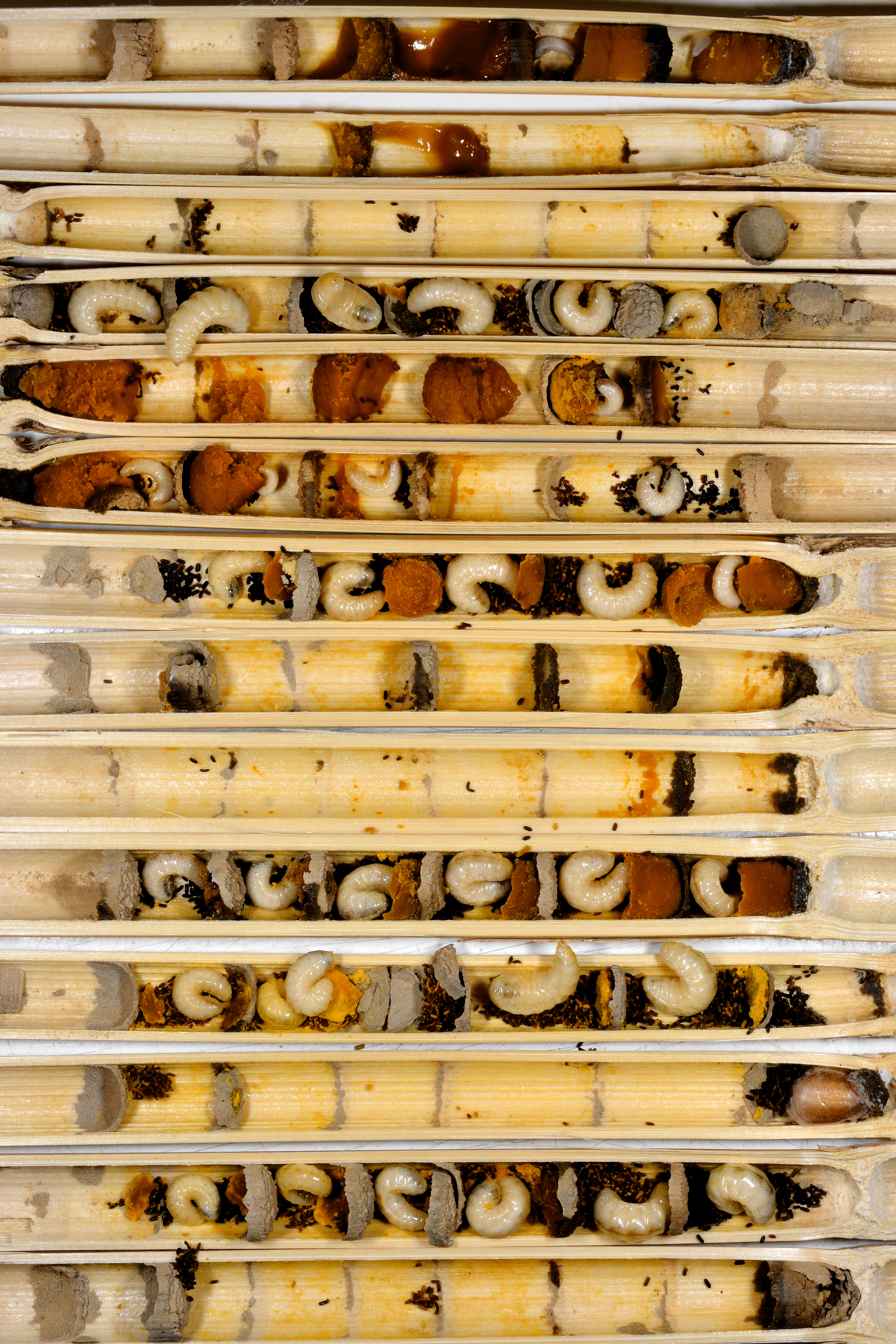 Bee hotel tubes opened with nests of Osmia cornuta (and maybe also a few cells of Osmia bicornis) at different development stage. Part of a study about honey bee and wild bees health in relation to the pollen quality (nutritional quality, pesticides contamination, pollen composition,...)